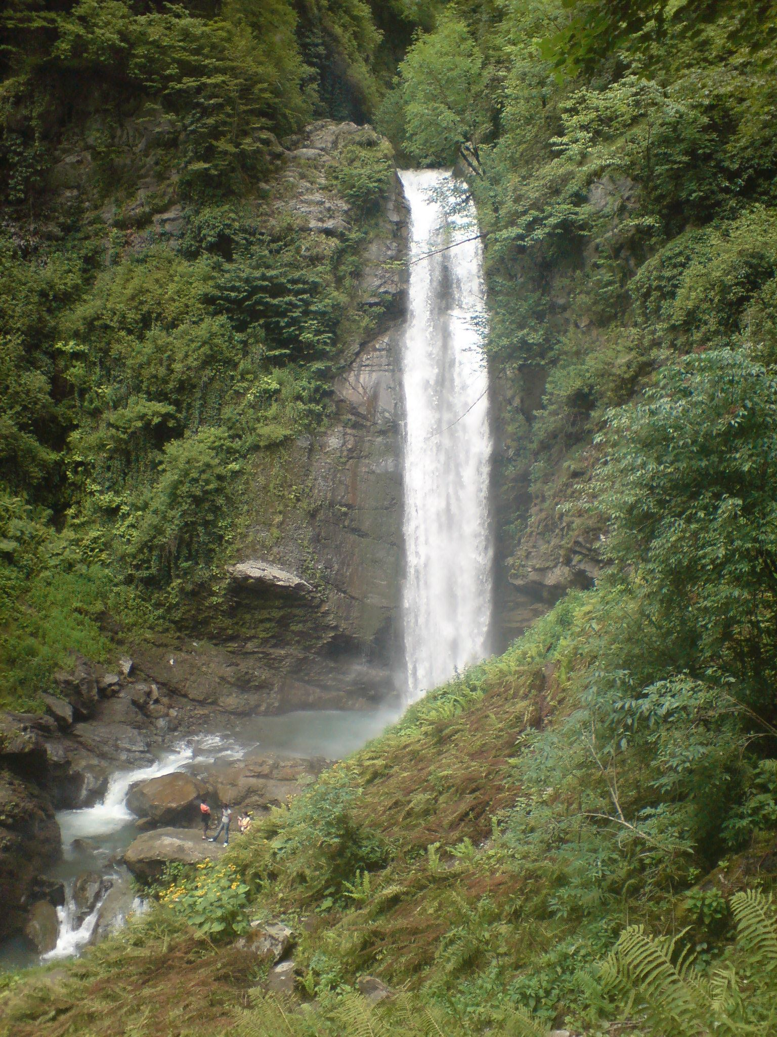 Lagodekhi protected areas, Georgia